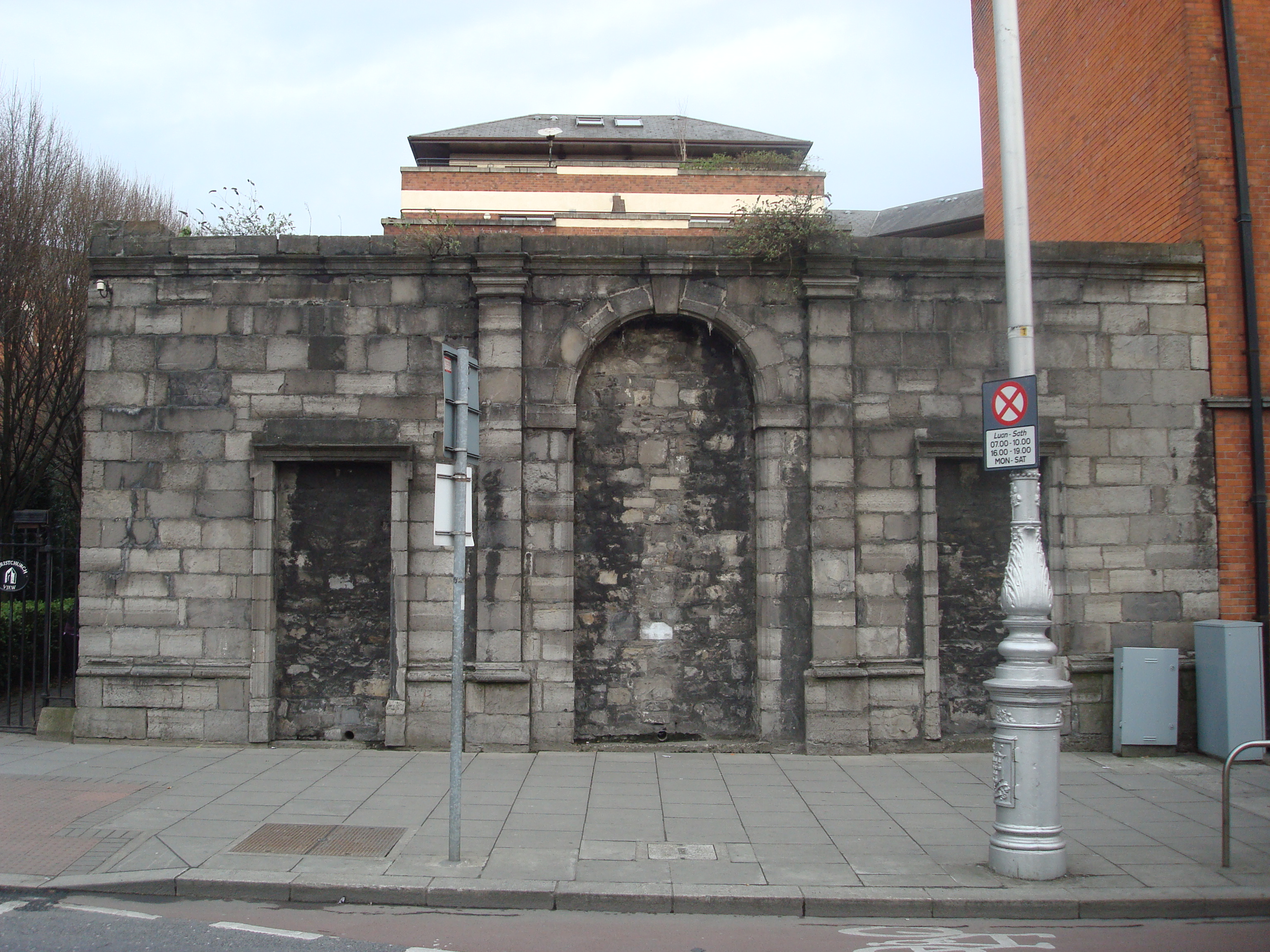 St. Nicholas Within, Nicholas Street, Dublin